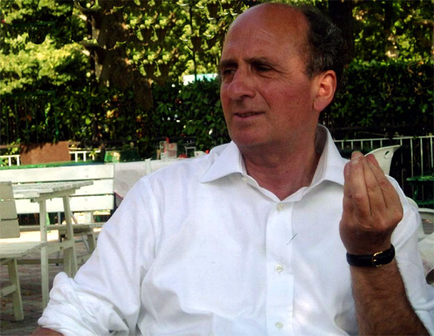 an Italian demographer and statistician